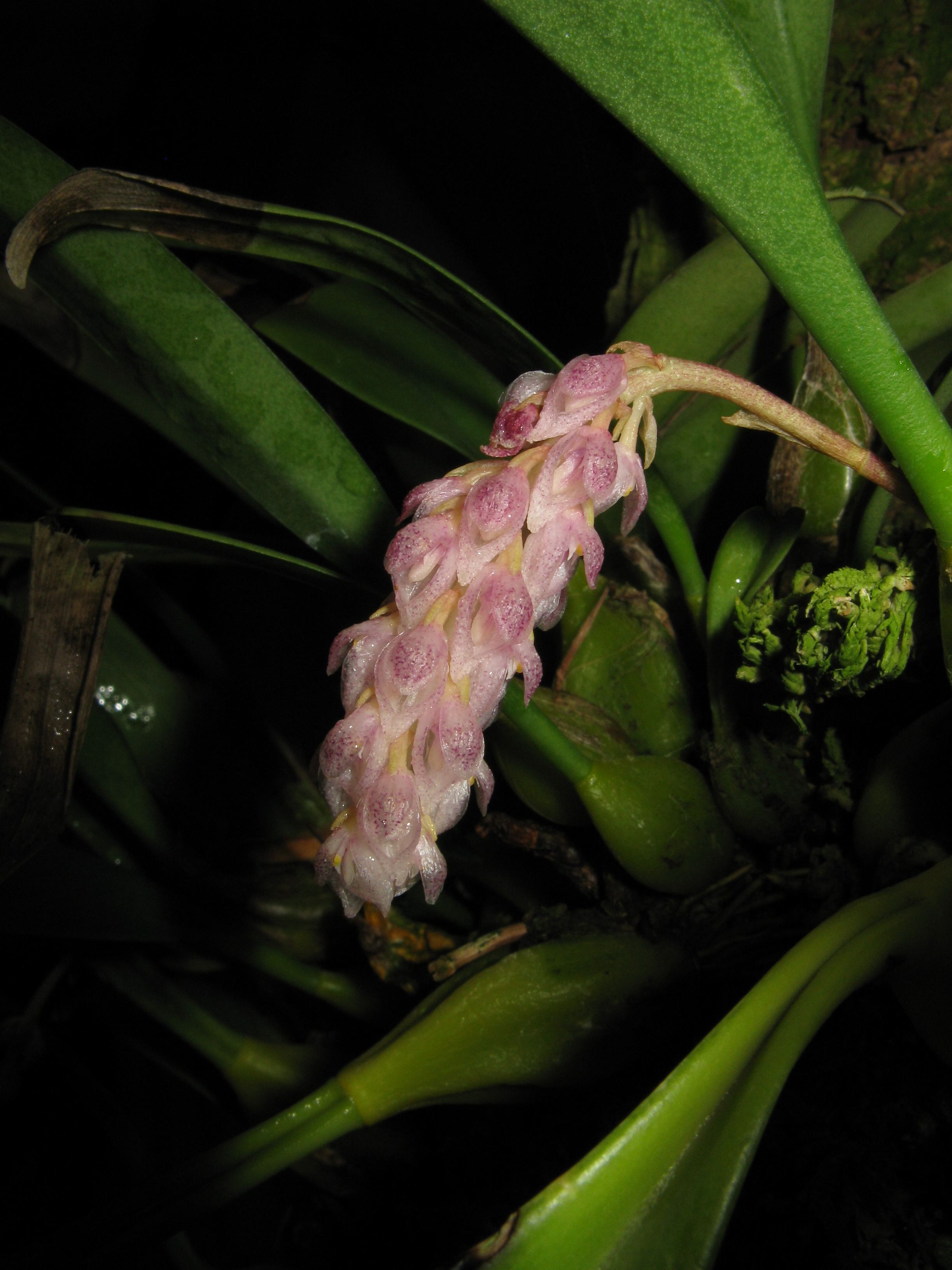 Scientific name Bulbophyllum crassipes Place:Osaka Prefectural Flower Garden,Osaka,Japan